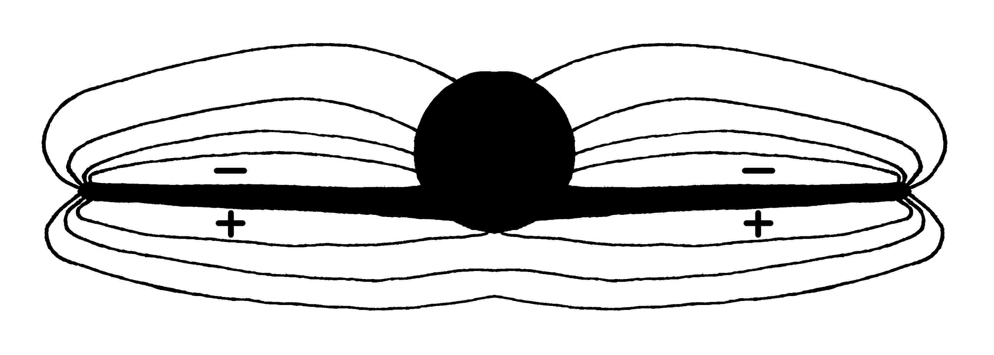 Drawing of an airplane wing-body combination in front view showing the isobars of the flow.